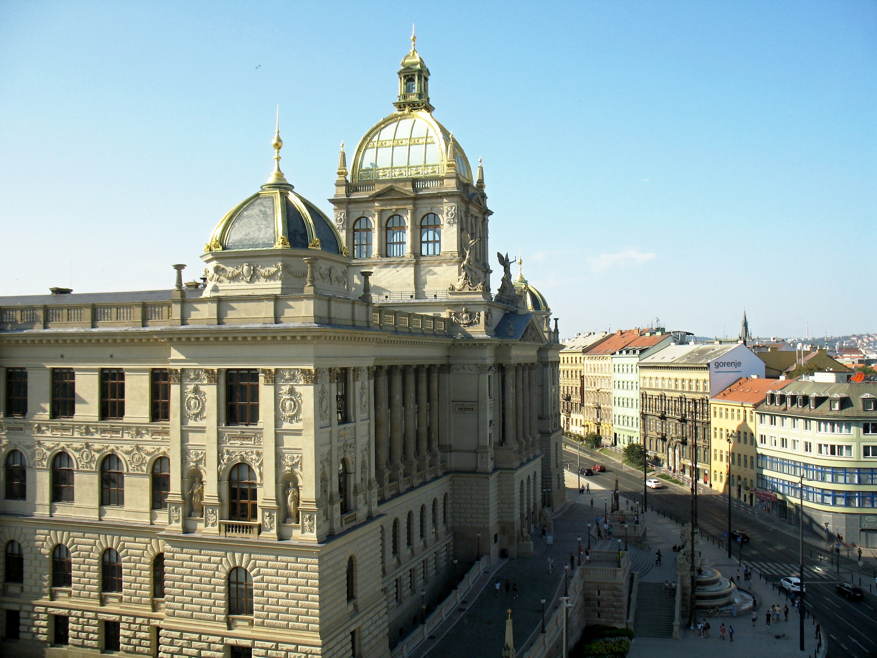 Views from former building of "Federální shromáždění" in Prague (new building of the National Museum)